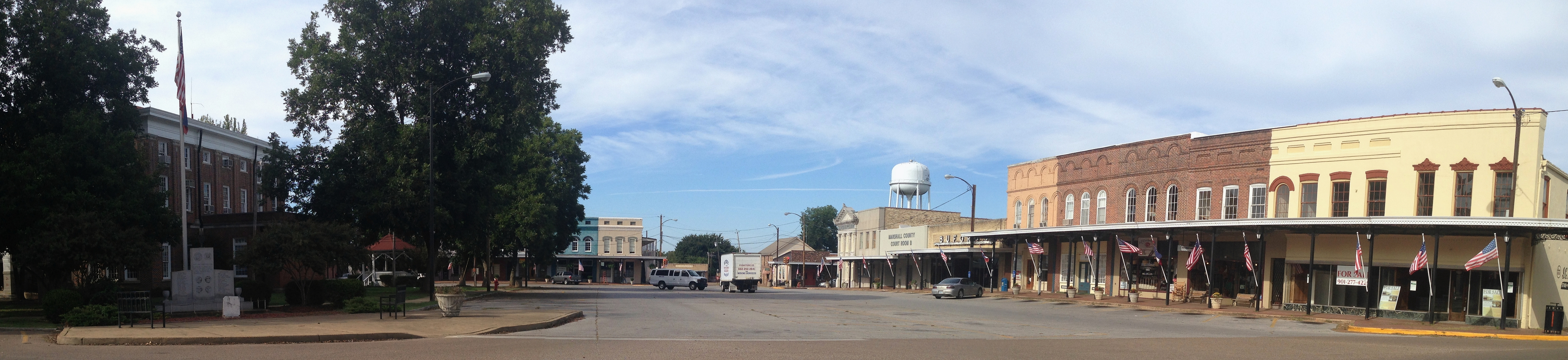 Downtown Holly Springs, Mississippi. This is part of the Holly Springs Courthouse Square Historic District.